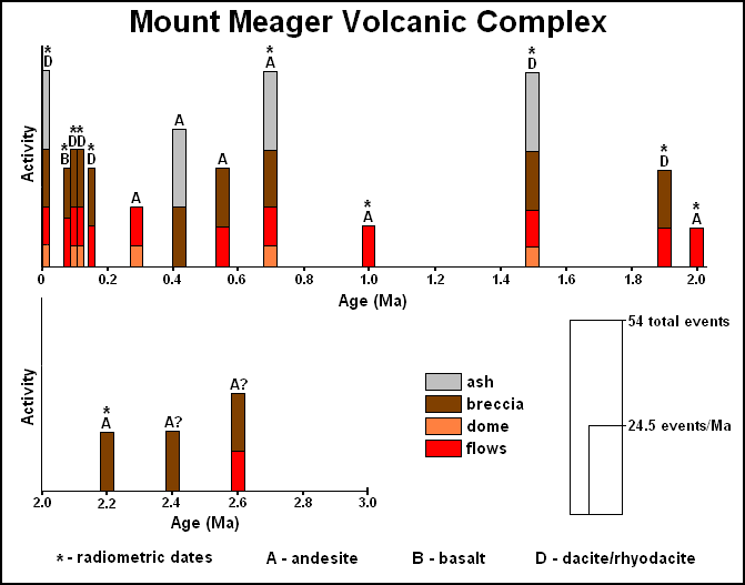 Diagrammatic representation of eruptive acticity at the Mount Meager volcanic complex in southwestern British Columbia, Canada. Height of the histogram gives a very crude indication of the size of the event.